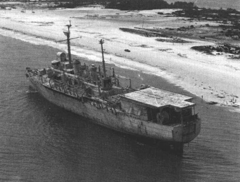 The retired U.S. Navy Mine Countermeasures Ship USS Ozark (MCS-2), circa 1979. Ozark was decommissioned and struck from the Naval Register on 1 April 1974 and towed to Destin, Florida (USA). She was anchored there while being used as a target by the U.S. Air Force from Eglin Air Force Base. Ozark was hit multiple times with large practice (non-explosive) bombs but was not sunk. In September 1979, Ozark was ripped loose from her anchorage by Hurricane Frederic and driven onto the beach near Perdido Key, Florida.